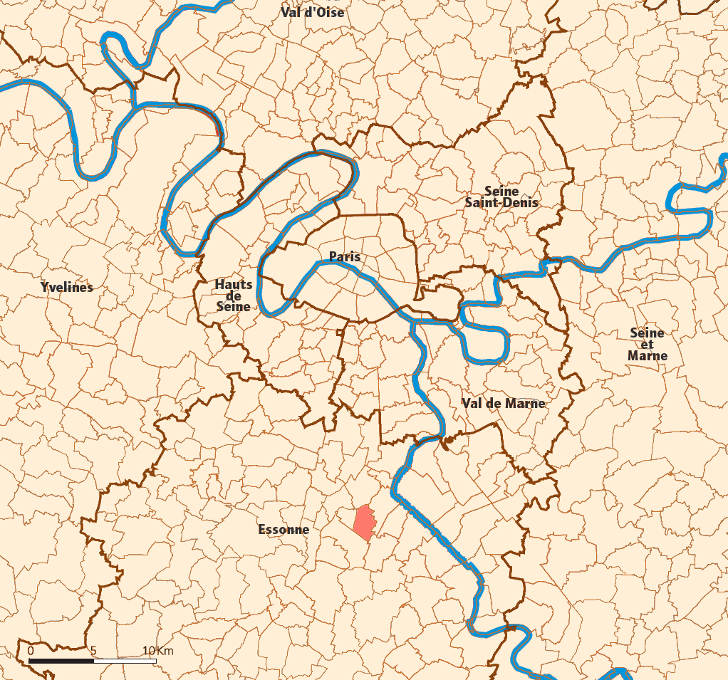 Created map myself.